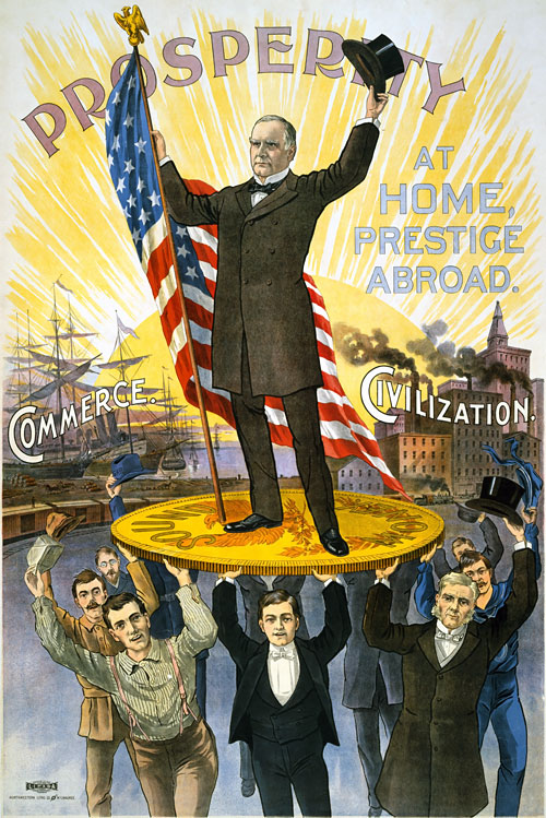 USA presidential campaign poster 1900 William McKinley campaigns on gold coin (gold standard) with support from soldiers, businessmen, farmers and professionals, claiming to restore prosperity at home and victory abroad